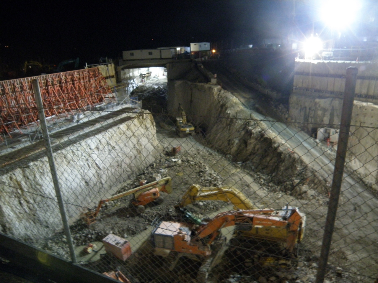 Tunnelling works for the Airport Link project, taking place at the Kedron Central site during the night